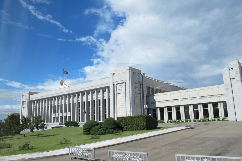 Pyongyang Assembly Hall